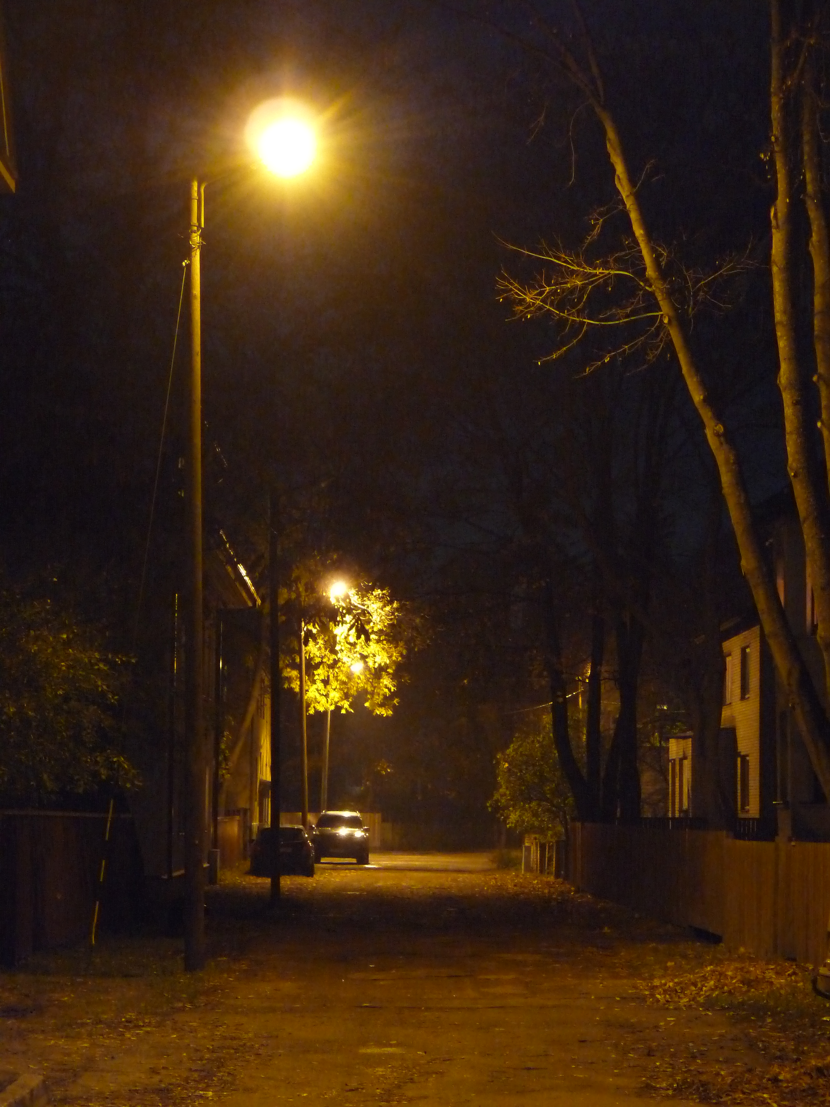 Loo street in Tallinn, Estonia.